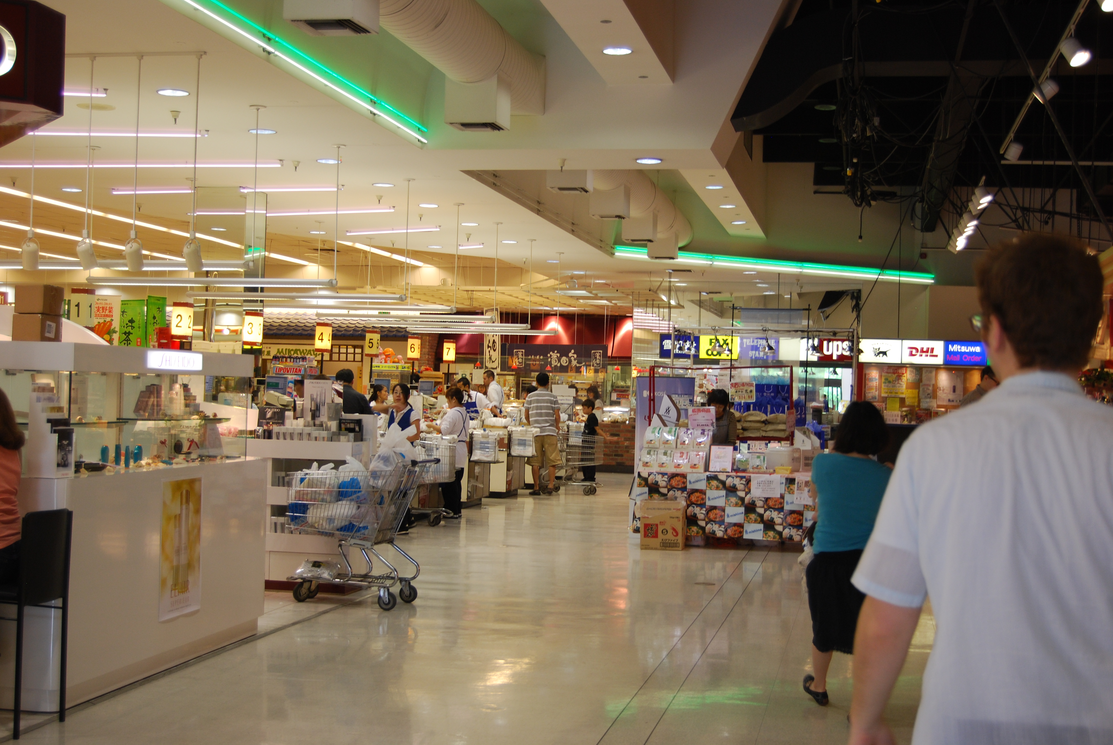 Interior of Mitsuwa Marketplace in Torrance, California. (original description: seems so much bigger and more modern than the ones in L.A. I wanted to take soooo many pictures in the food court, but sometimes I worry that people will think that I think this is some sort of exhibit or oddity, rather than just a freakin' cool grocery store with awesome product designs.)